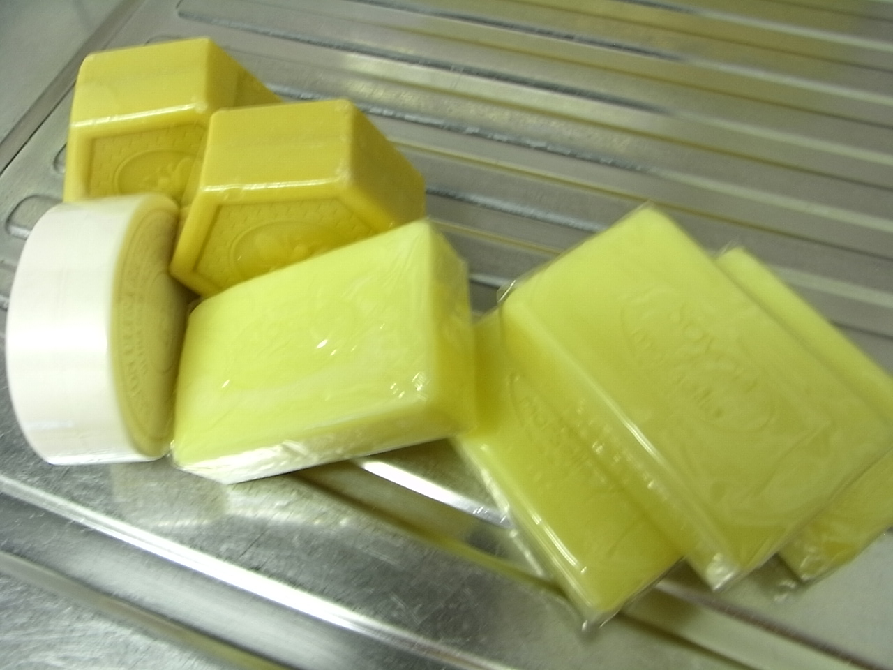 Marseille soaps in different shapes